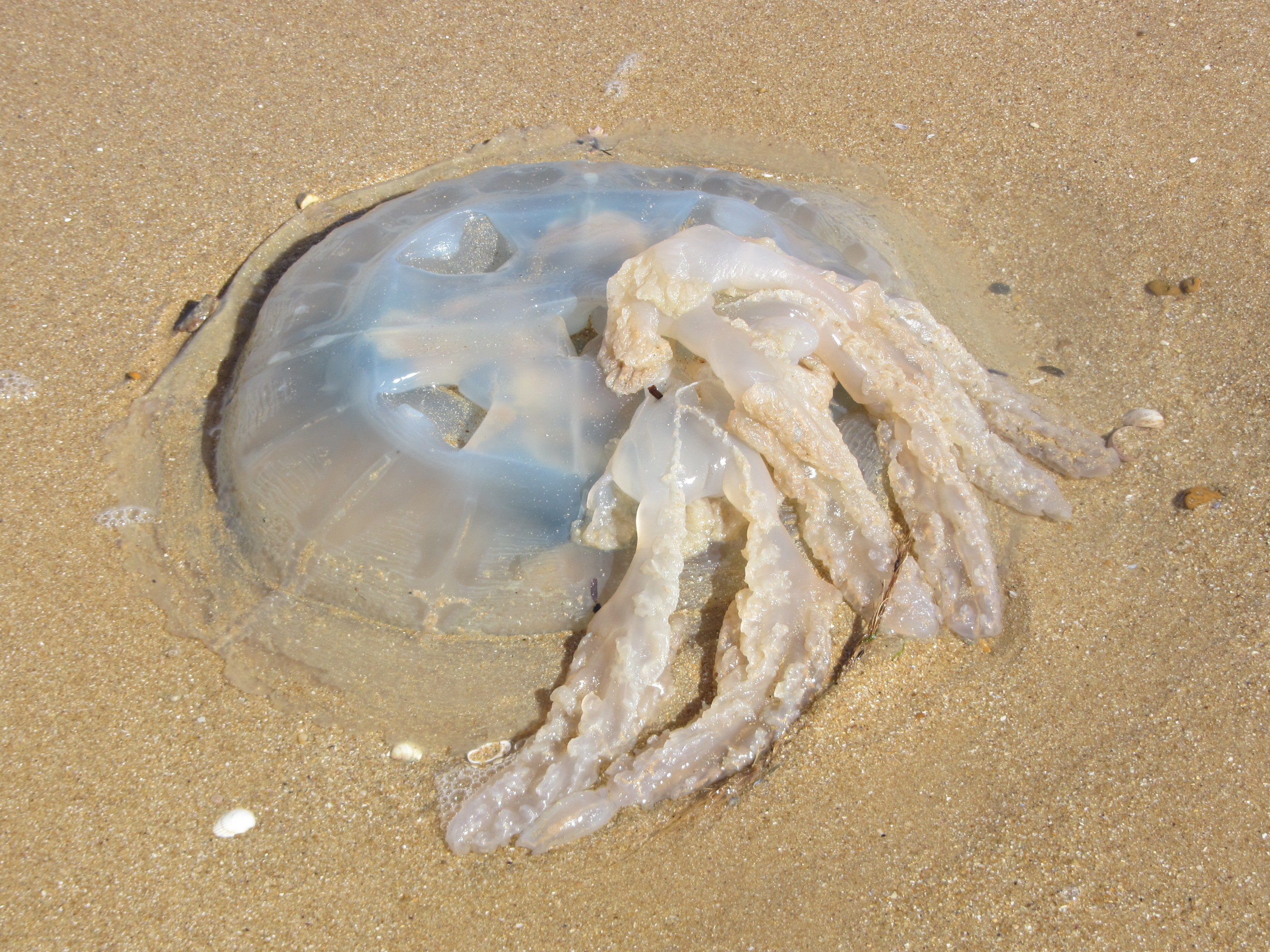 Beached jellyfish (Rhizostoma octopus) at the edge of the sea in Boyardville, Île d'Oléron, France.